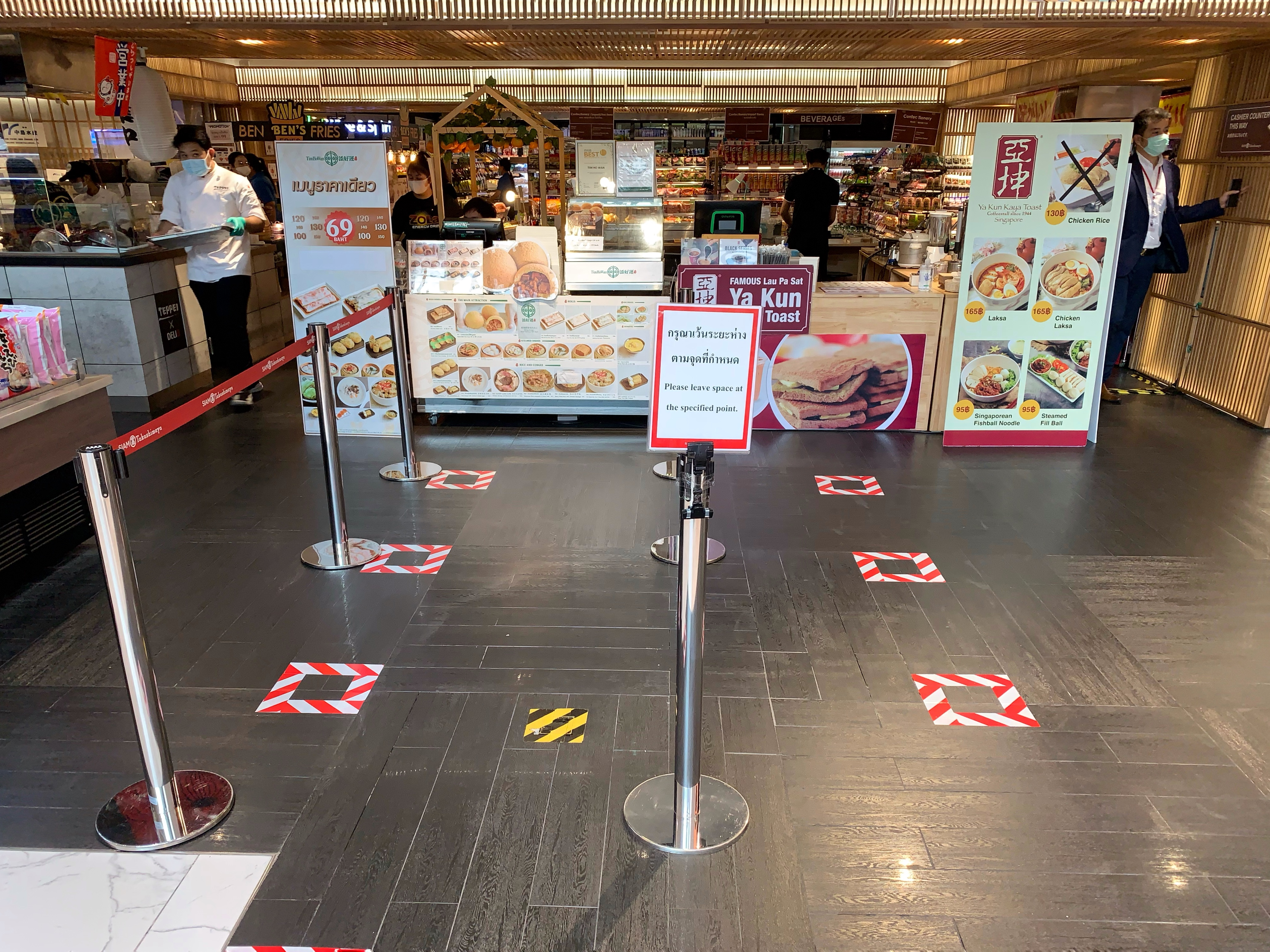 Queuing markers to separate customers from each other as a social distancing policy of ICONSIAM shopping complex in Bangkok